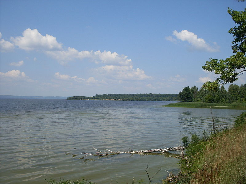 Kaniv Nature Reserve, the part "Zmiyni Ostorvy"